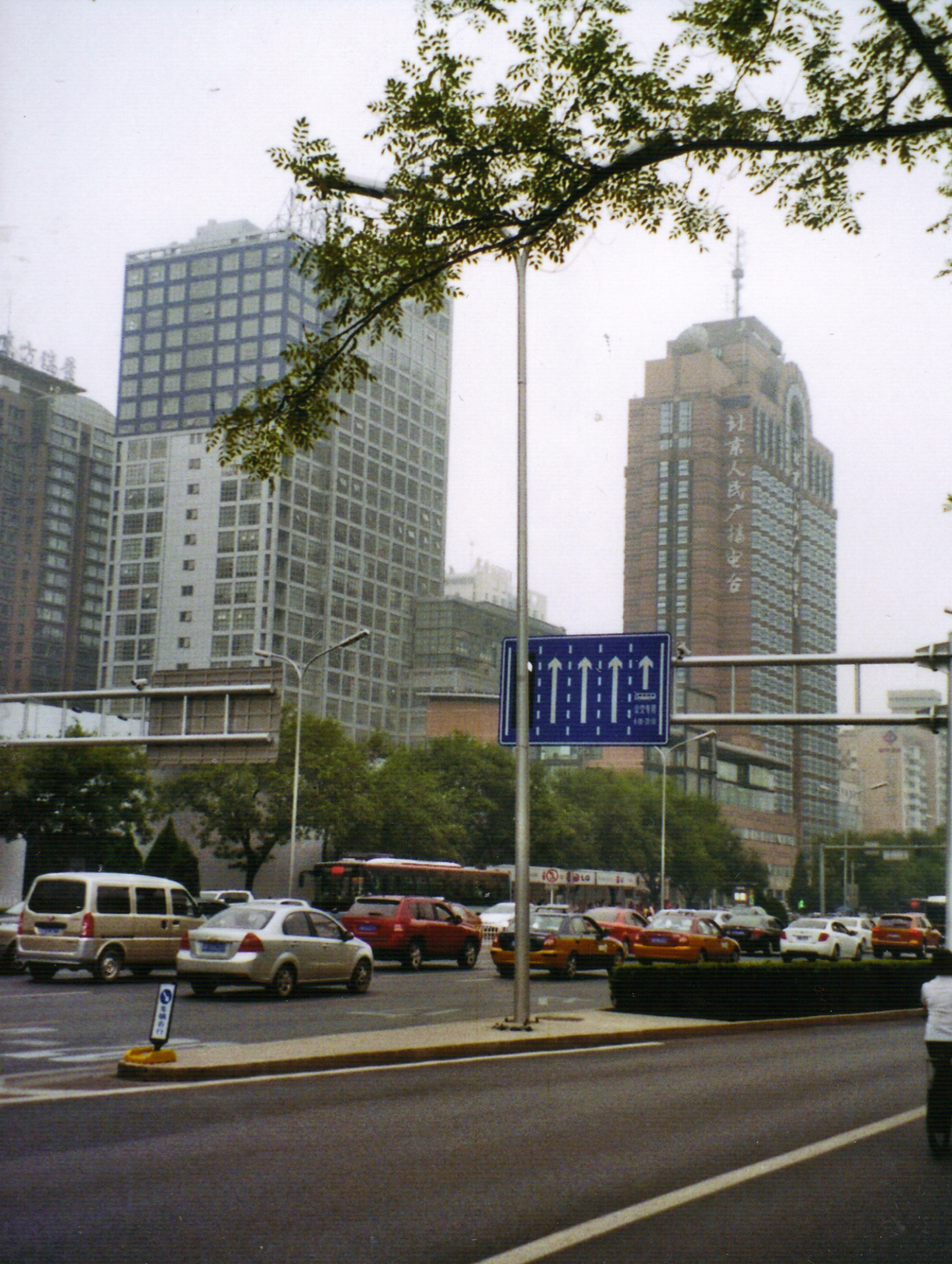 Chang'an Avenue, Peking, scan of my paper copy